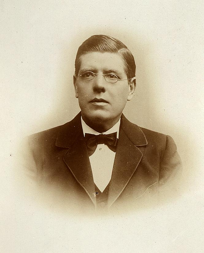 Dirk Barend Kagenaar